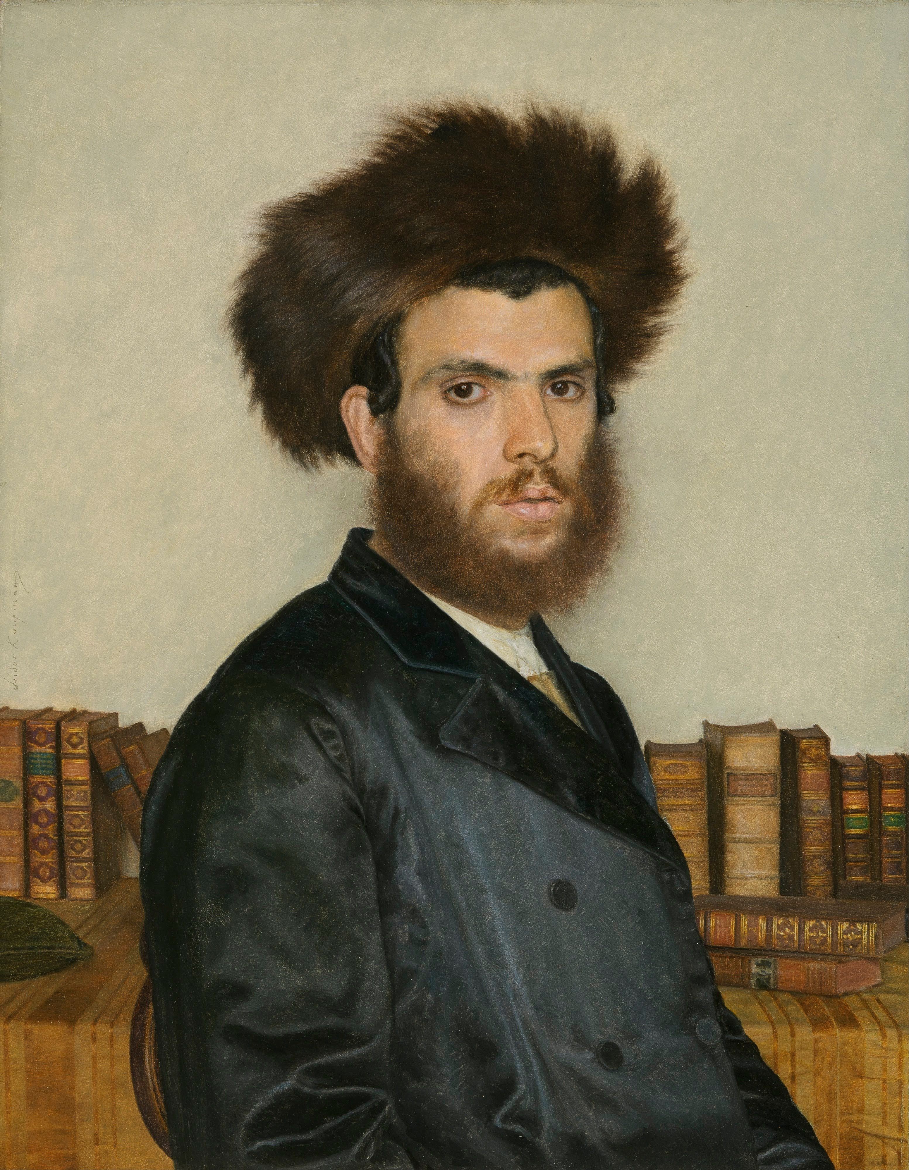 The Kabbalist